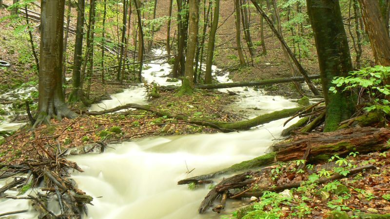 The spring of the Turňa-river from the Falcon karst spring in the slope of the Silica plateau (Slovak karst). The extreme condition during flood in spring, 2010.